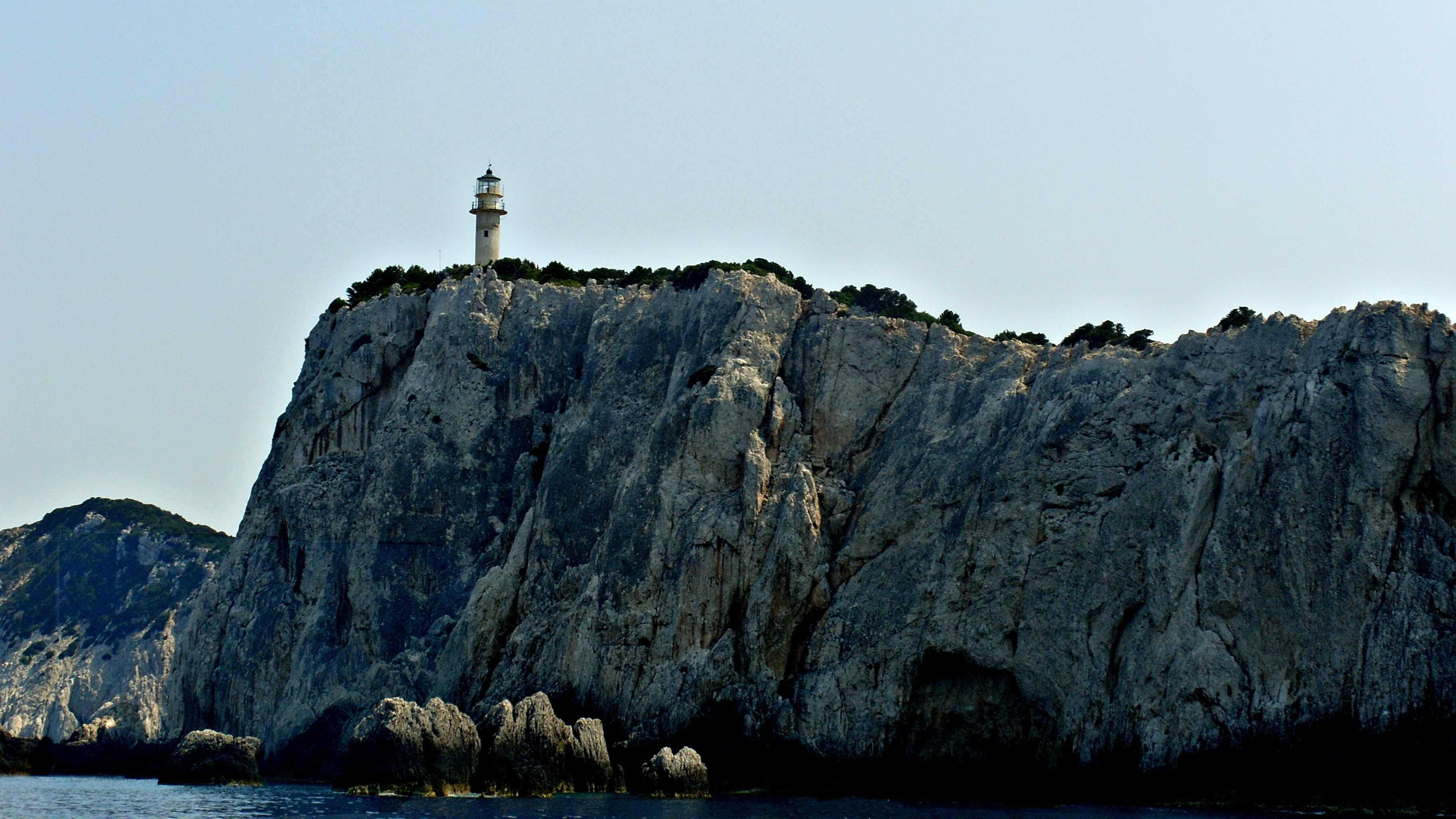 Lighthouse at Cape Lefkada